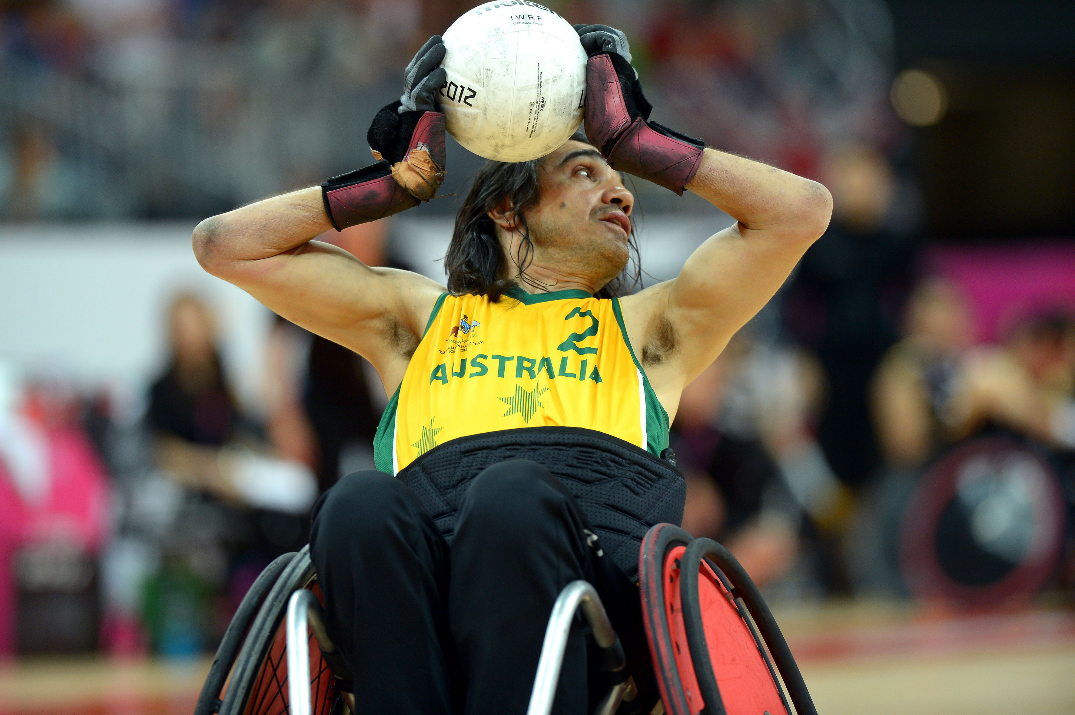 Photograph of Australian Paralympic team member Nazim Erdem at the 2012 Summer Paralympic Games in London